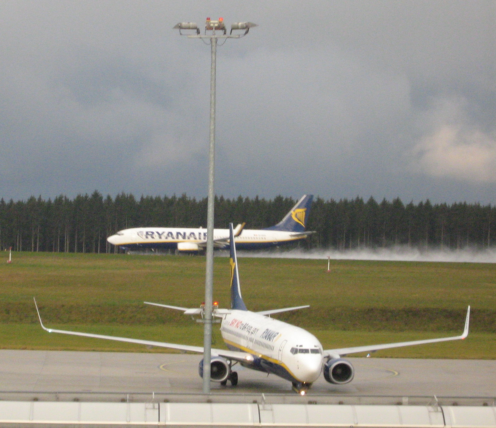 Ryanair Boeing 737-800 aircraft at Frankfurt-Hahn Airport